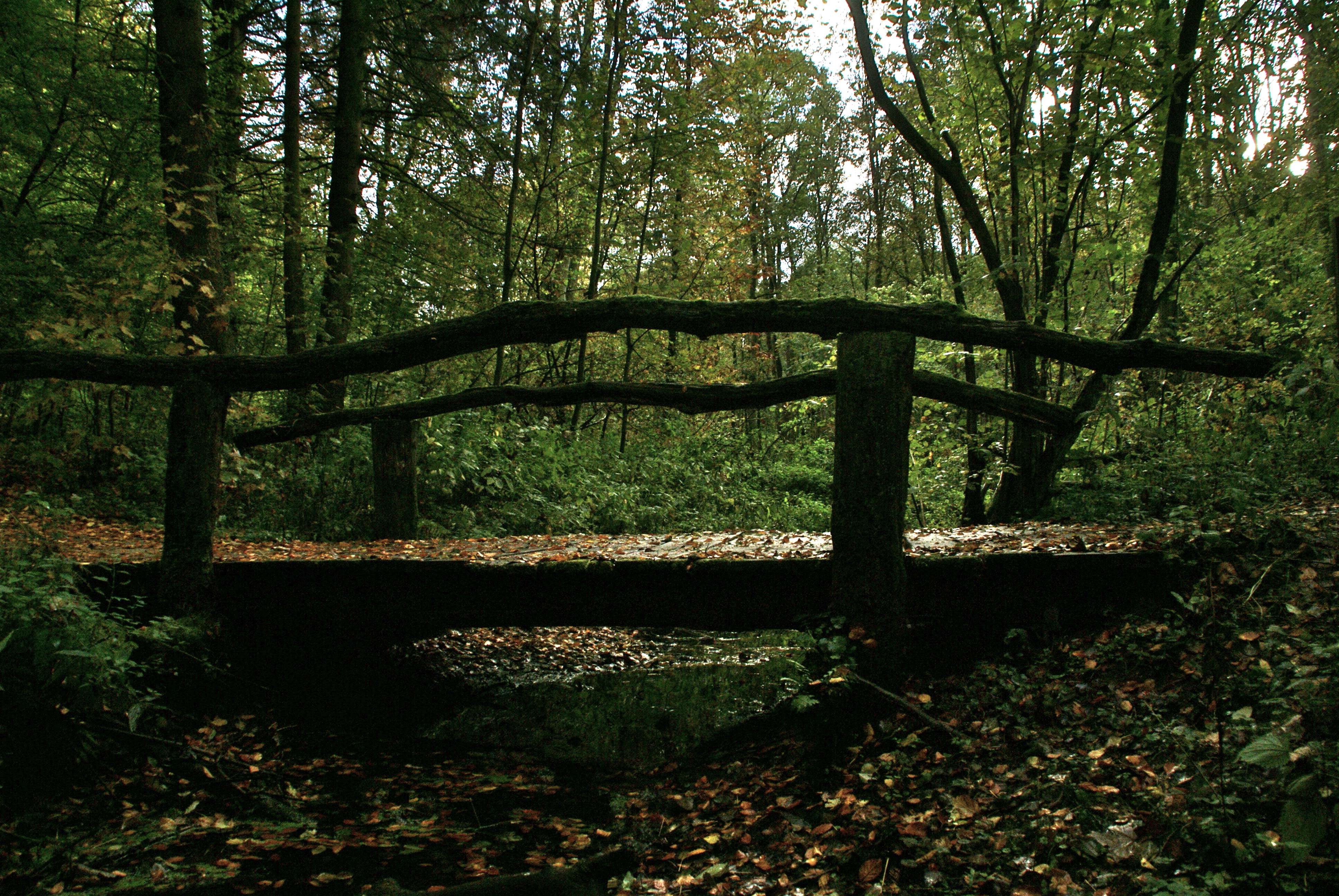 Hamburg (Wohldorf-Ohlstedt), Germany: Footbridge over the river Bredenbek (Alster) near to the confluence with the Alster